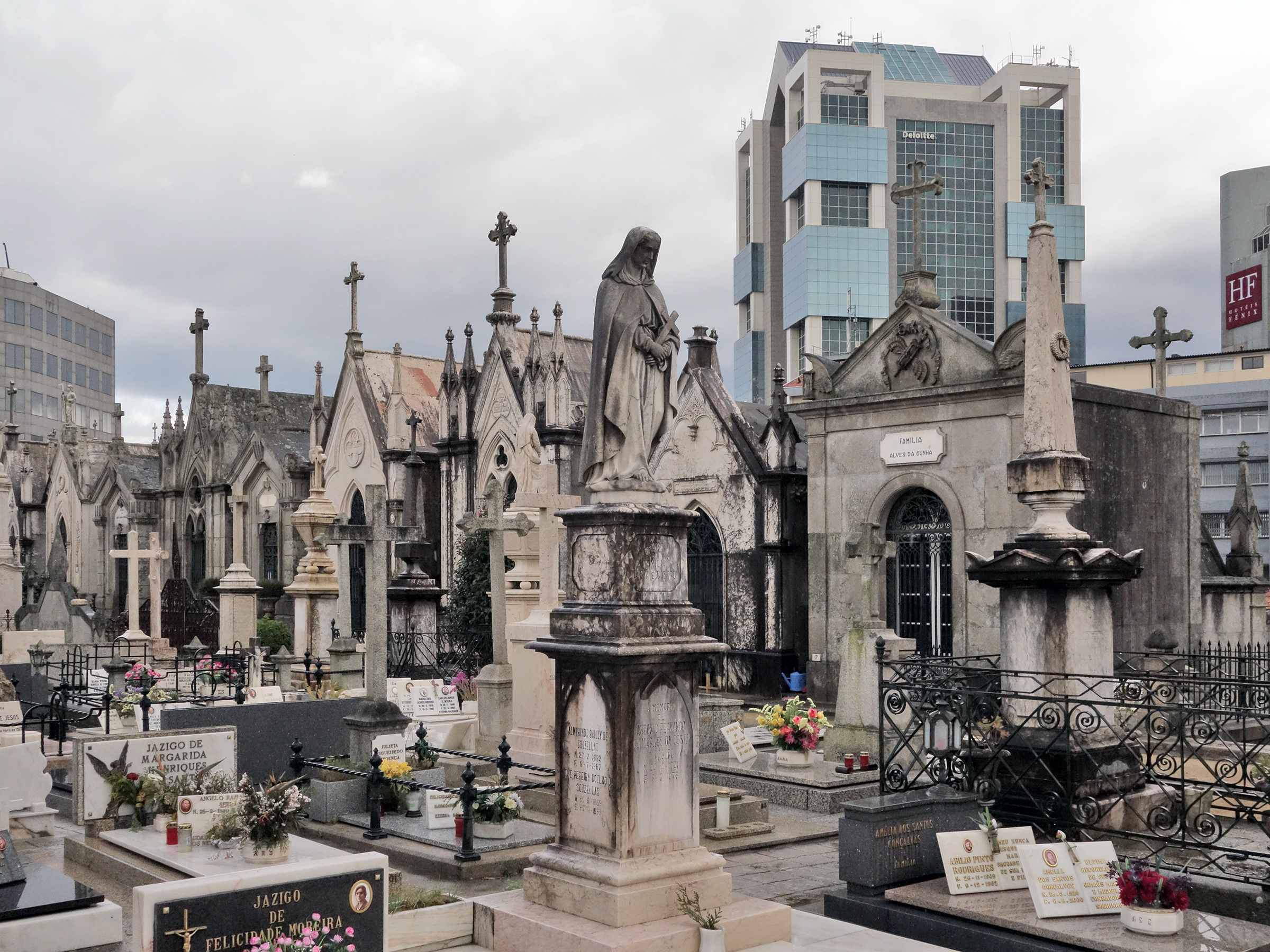 The municipial cemetery Cemitério de Agramonte in Porto, Portugal